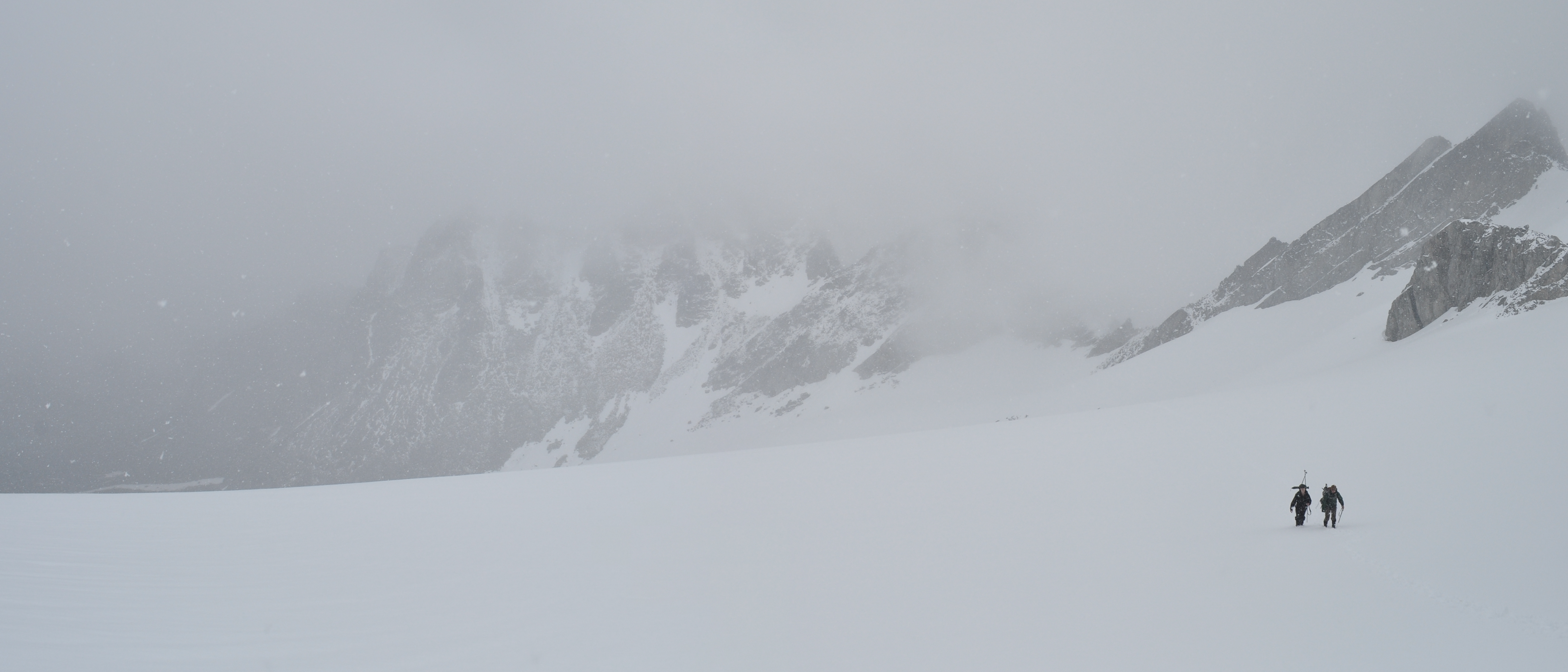 Hikers crossing Penny Royal Glacier, in the Talkeetna Mountains of Alaska